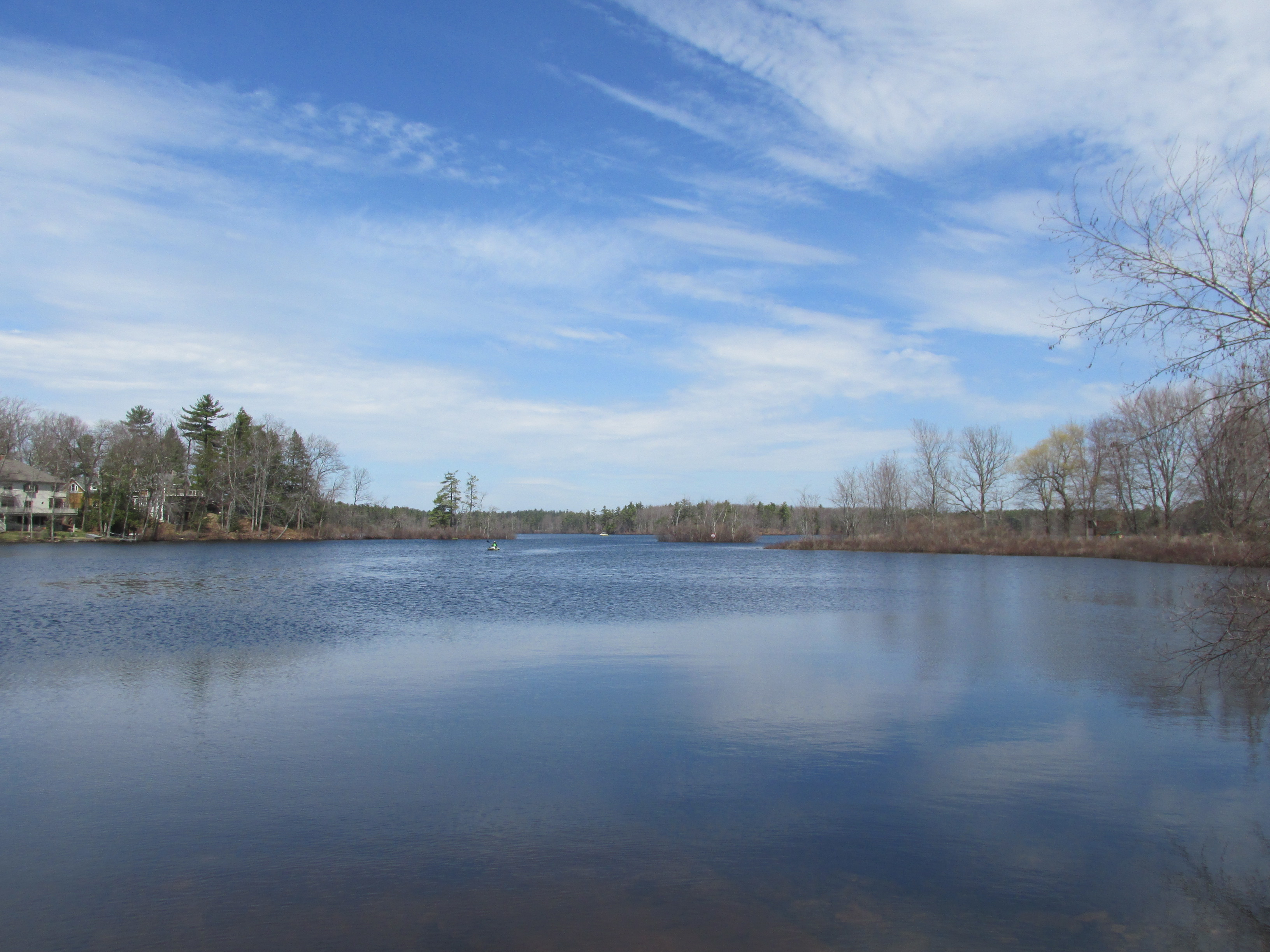 Great Pond, Kingston New Hampshire - 2014